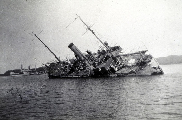 United States Coast and Geodetic Survey survey ship USC&GS Fathomer aground in the Philippine Islands after the typhoon of 15 August 1936.